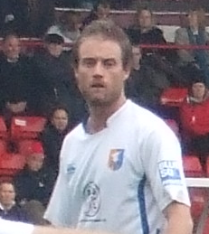 Alan O'Hare